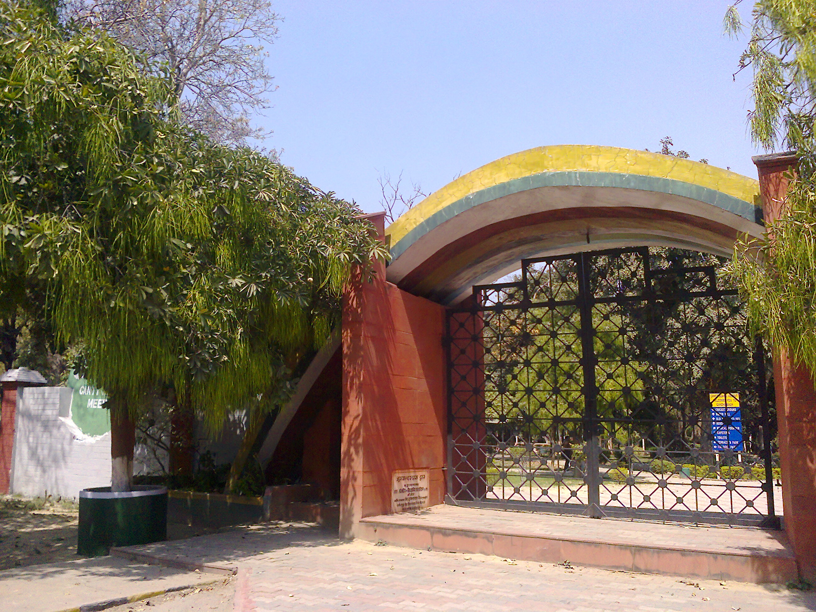 This is an image of one of the many entrances of Gandhi Bagh, a large public garden in the cantonment area of Meerut, Uttar Pradesh, India. This garden has been present in the city since before India's independence.